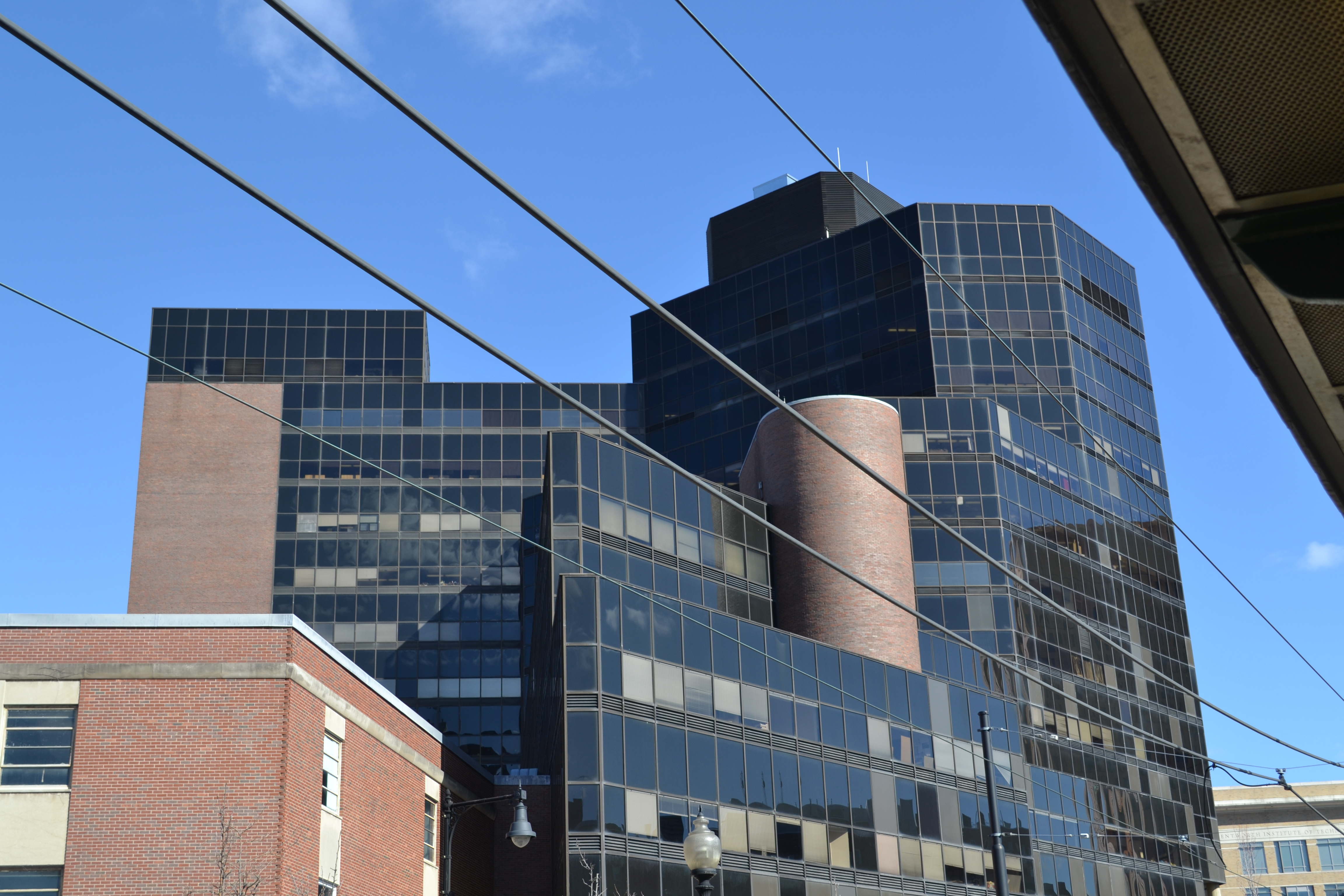 Building. My photograph, from Feb 2013